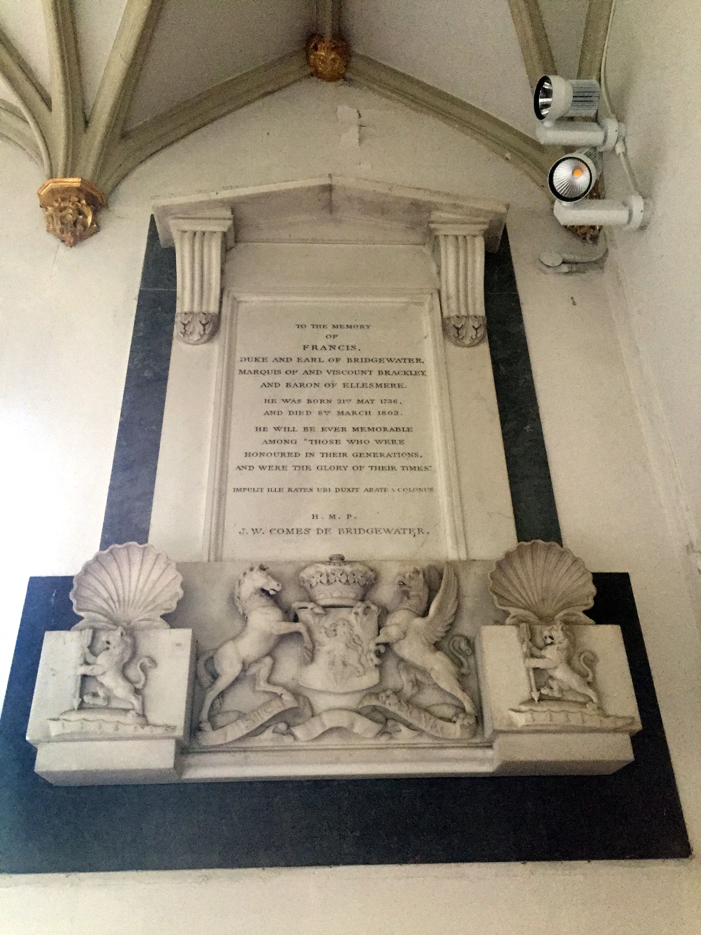 Memorial to Francis Egerton (1736–1803), 3rd Duke of Bridgewater and 6th Earl of Bridgewater (the "Canal Duke") in the Bridgewater Chapel, Little Gaddesden Church, Hertfordshire, UK. The Latin inscription reads "Impulit ille rates ubi duxit aratra colonus" - "He sent barges where formerly the farmer tilled his fields"